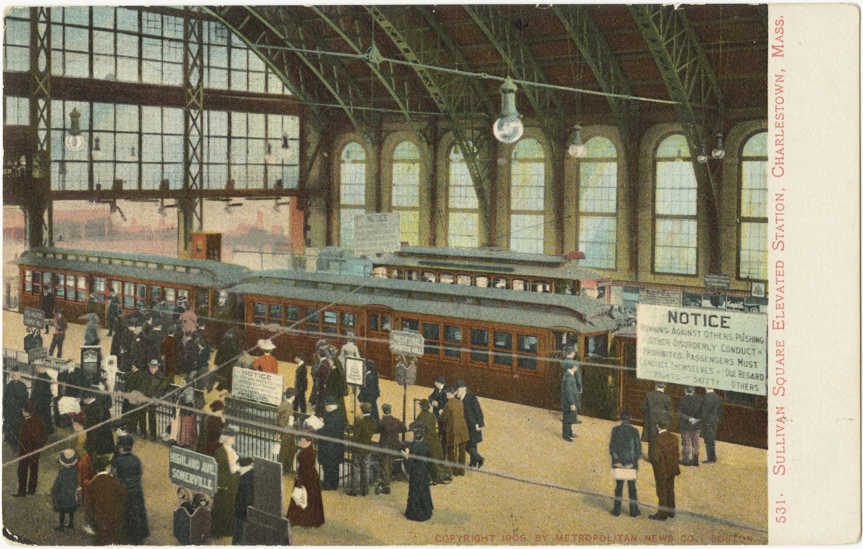 Postcard of Sullivan Square station on the Charlestown El